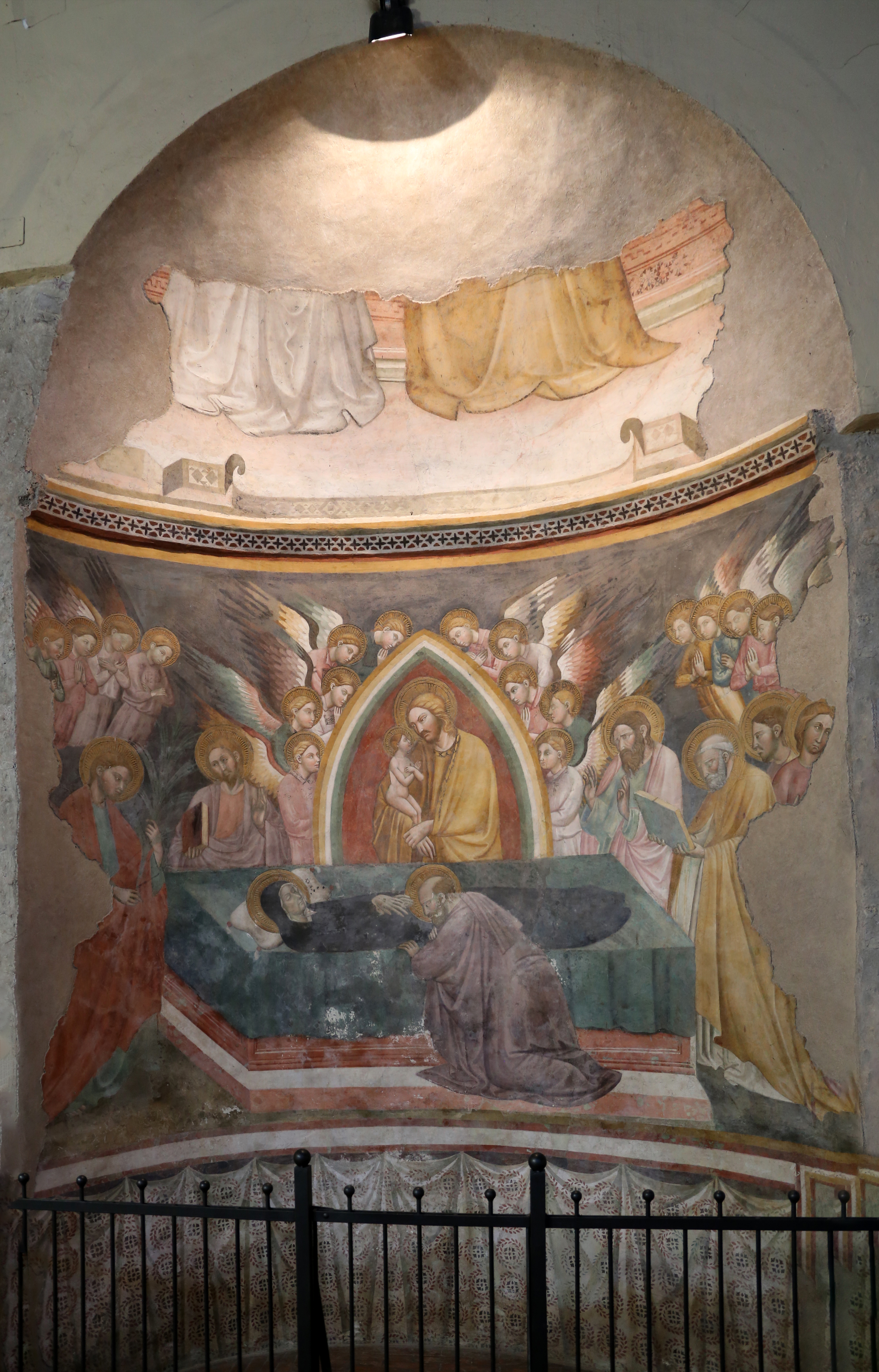 San Pietro (Terni)